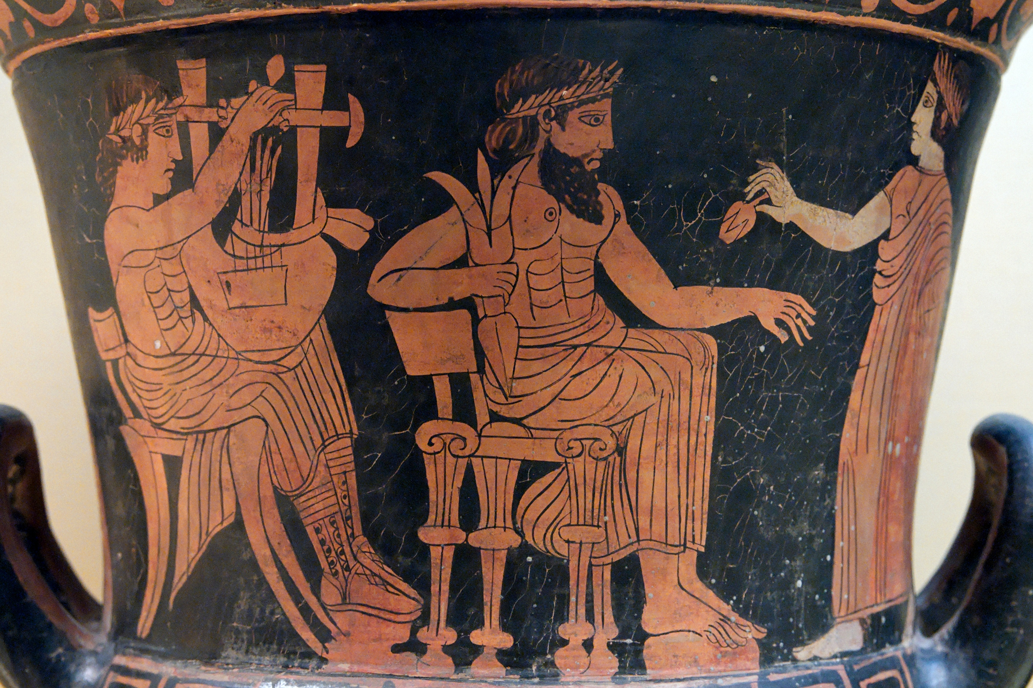 Olympian assembly, from left to right: Apollo, Zeus and Hera. Etruscan red-figure calyx-krater, 420–400 BC. From Etruria.